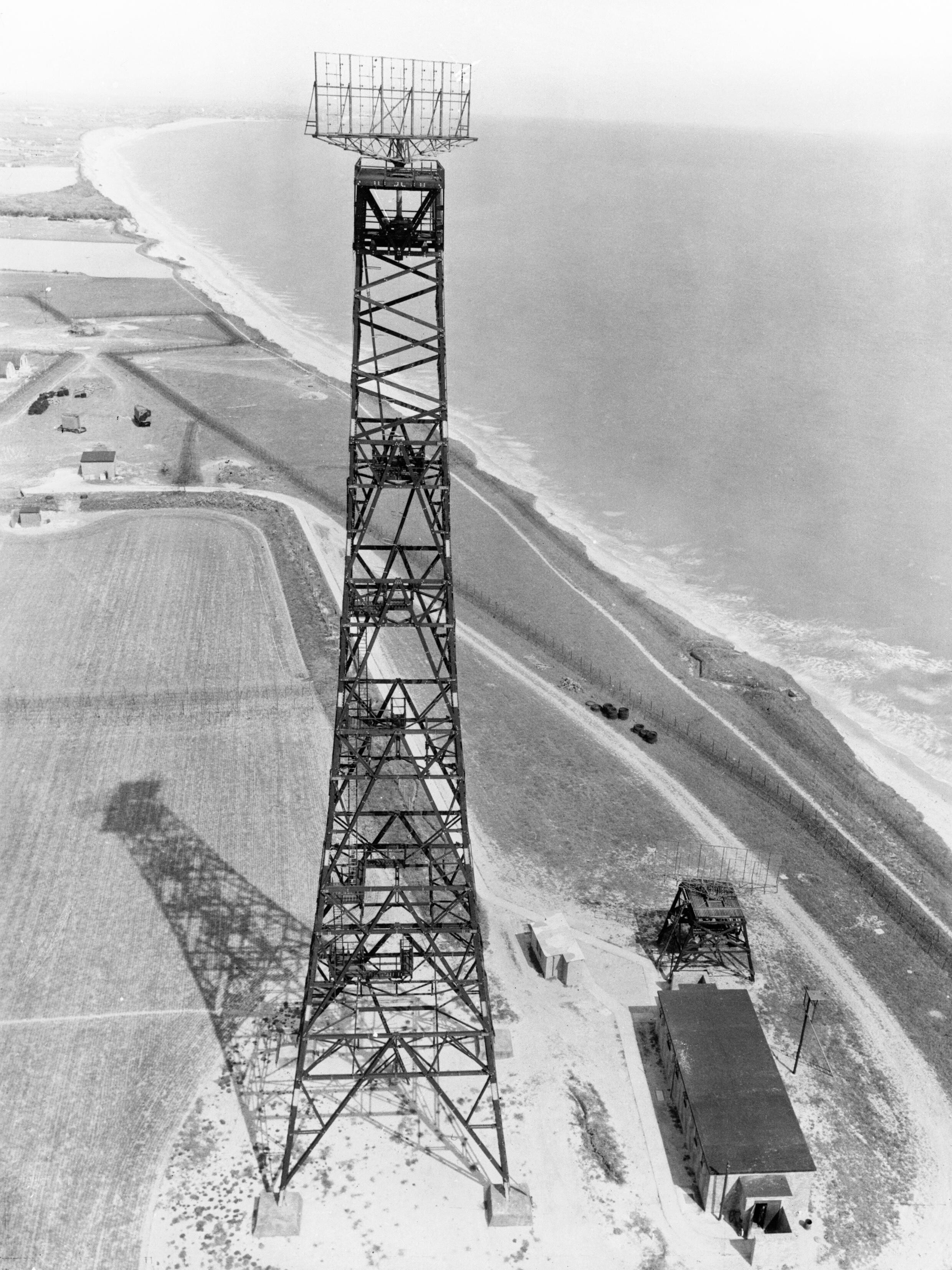 The Chain Home Low radar installation at Hopton-on-Sea, 1945. Chain Home Low: AMES Type 2 CHL installation at Hopton-on-Sea. The station is equipped with two CHL aerial arrays, one on top of the 185ft steel tower, and the other on a 20ft -high wooden gantry by the Operations Block at lower right.